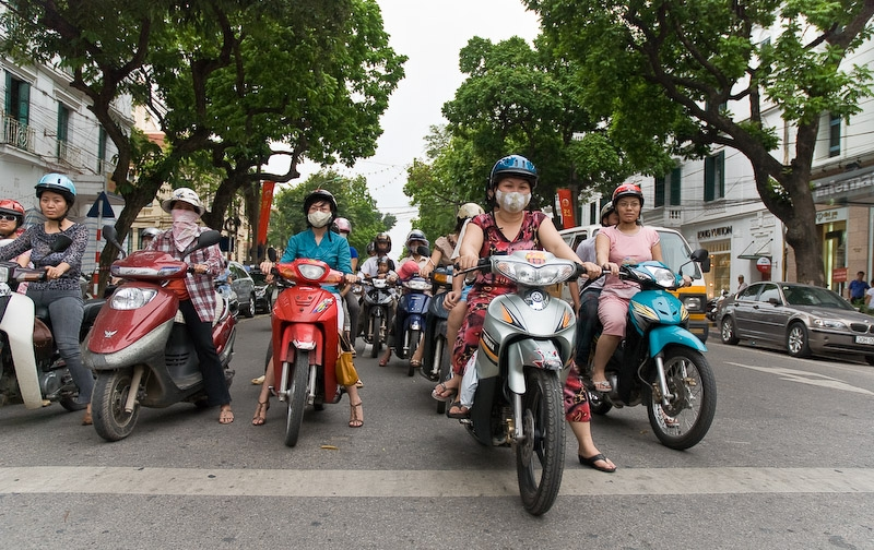 Motorbike in Hanoi